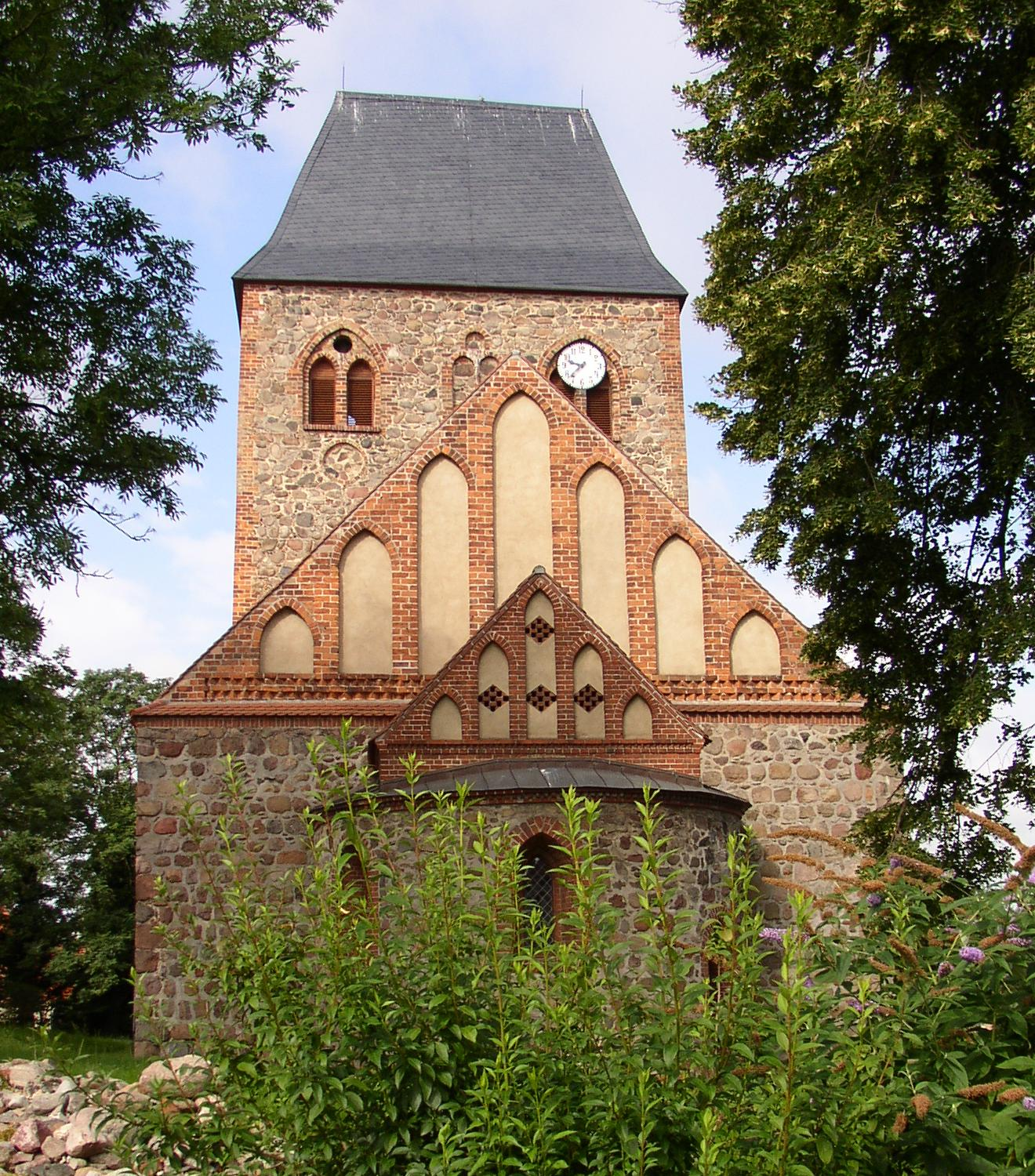 Church in Kümmernitztal-Preddöhl in Brandenburg, Germany